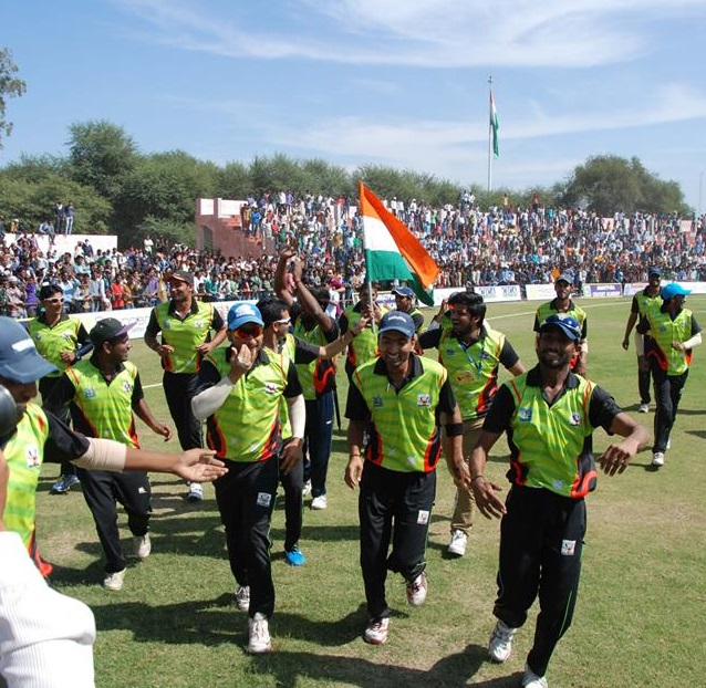 Kota Chambal Tigers' Team going for a Victory Run around the International Stadium, Kota after winning RCL 2016